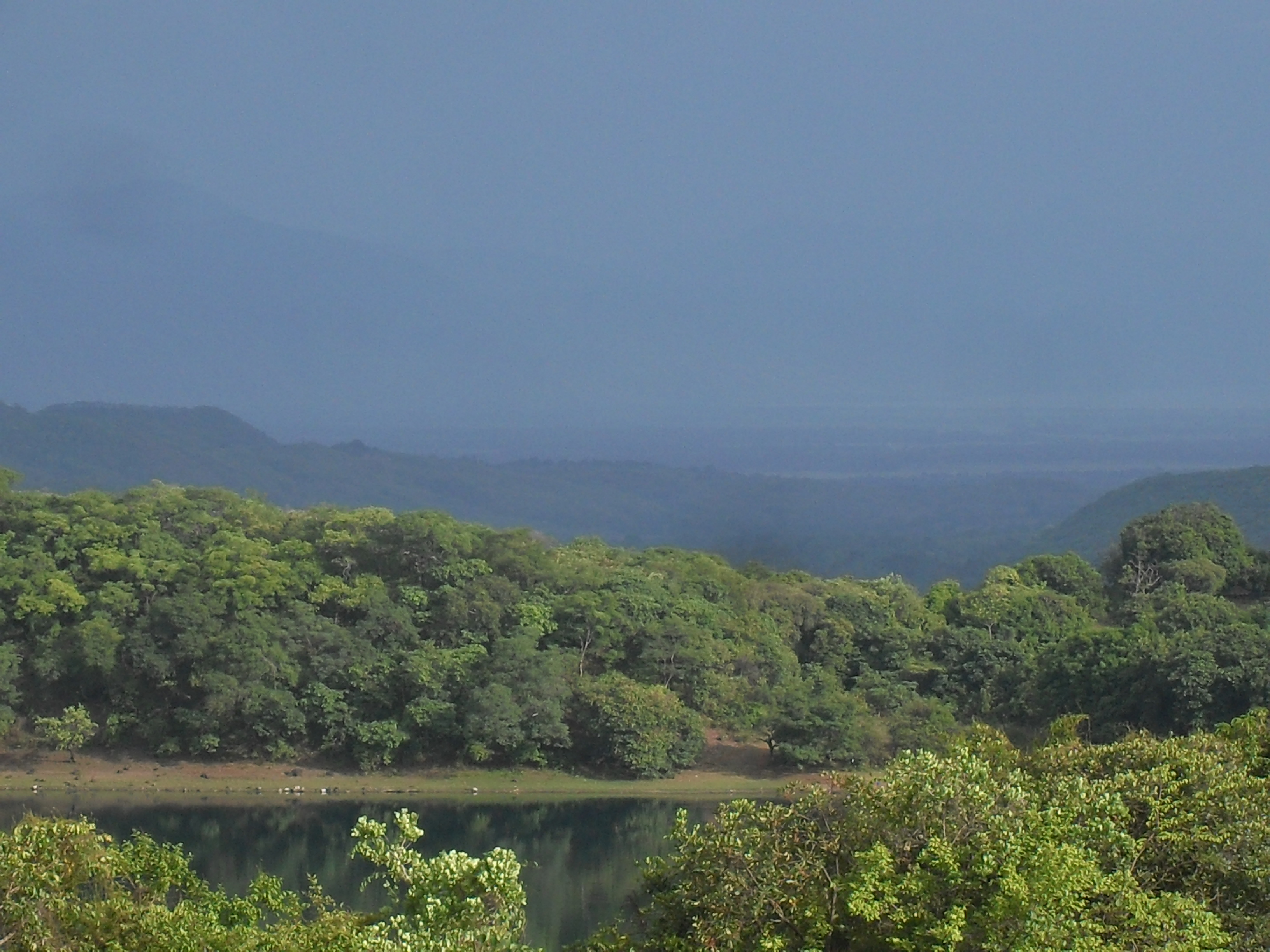 Lake kisiba,volcanic crater lake in southern highlands at Rungwe district,Mbeya region in Tanzania